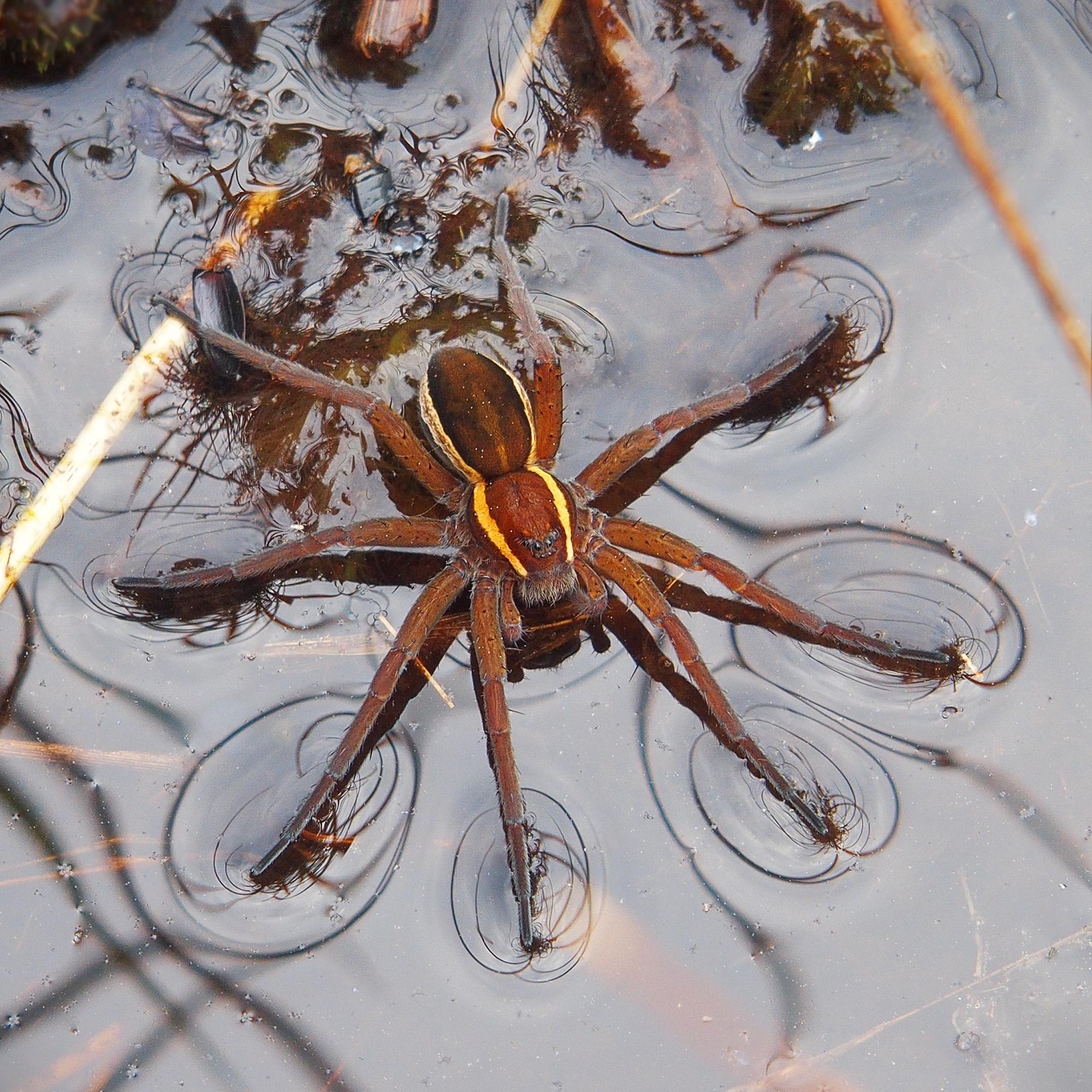 Raft Spider (Dolomedes fimbriatus) walking on water